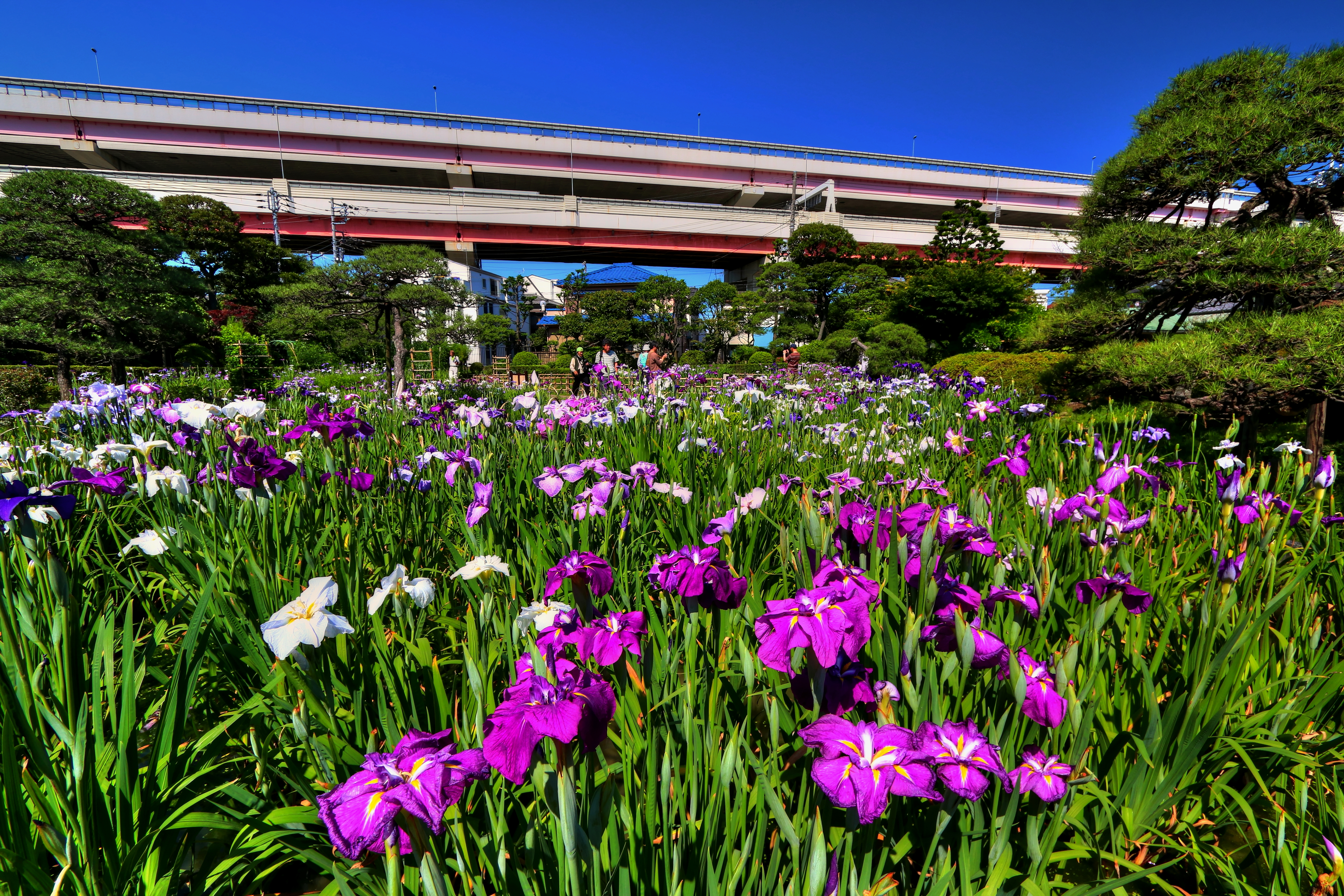 Horikiri Shōbu-en (Horikiri Iris Garden) in Katsushika-ku, Tokyo